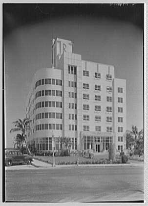 Title: Raleigh Hotel, Collins Ave., Miami Beach, Florida. Abstract/medium: Gottscho-Schleisner Collection (Library of Congress) Physical description: 1 negative